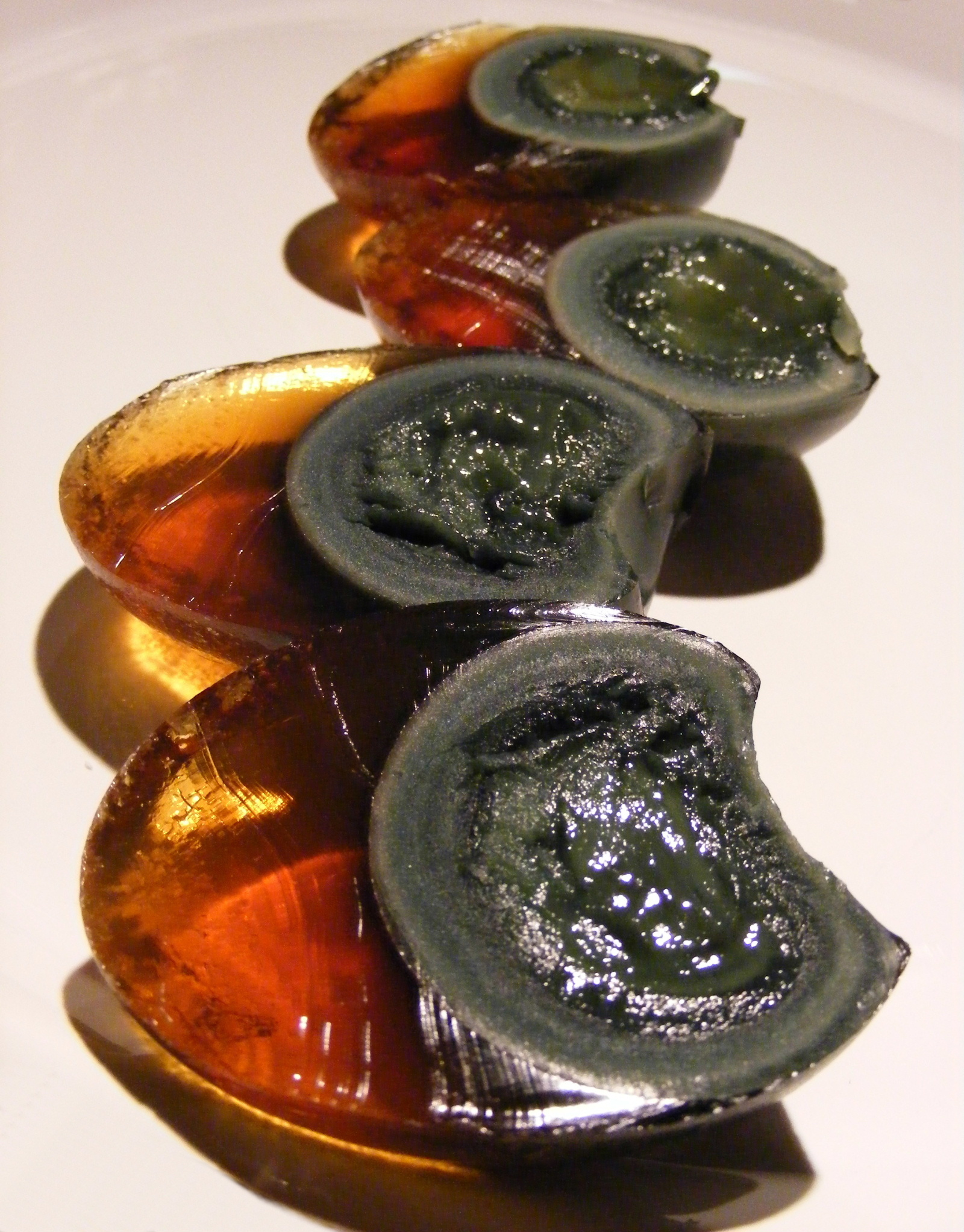 Century Eggs from China